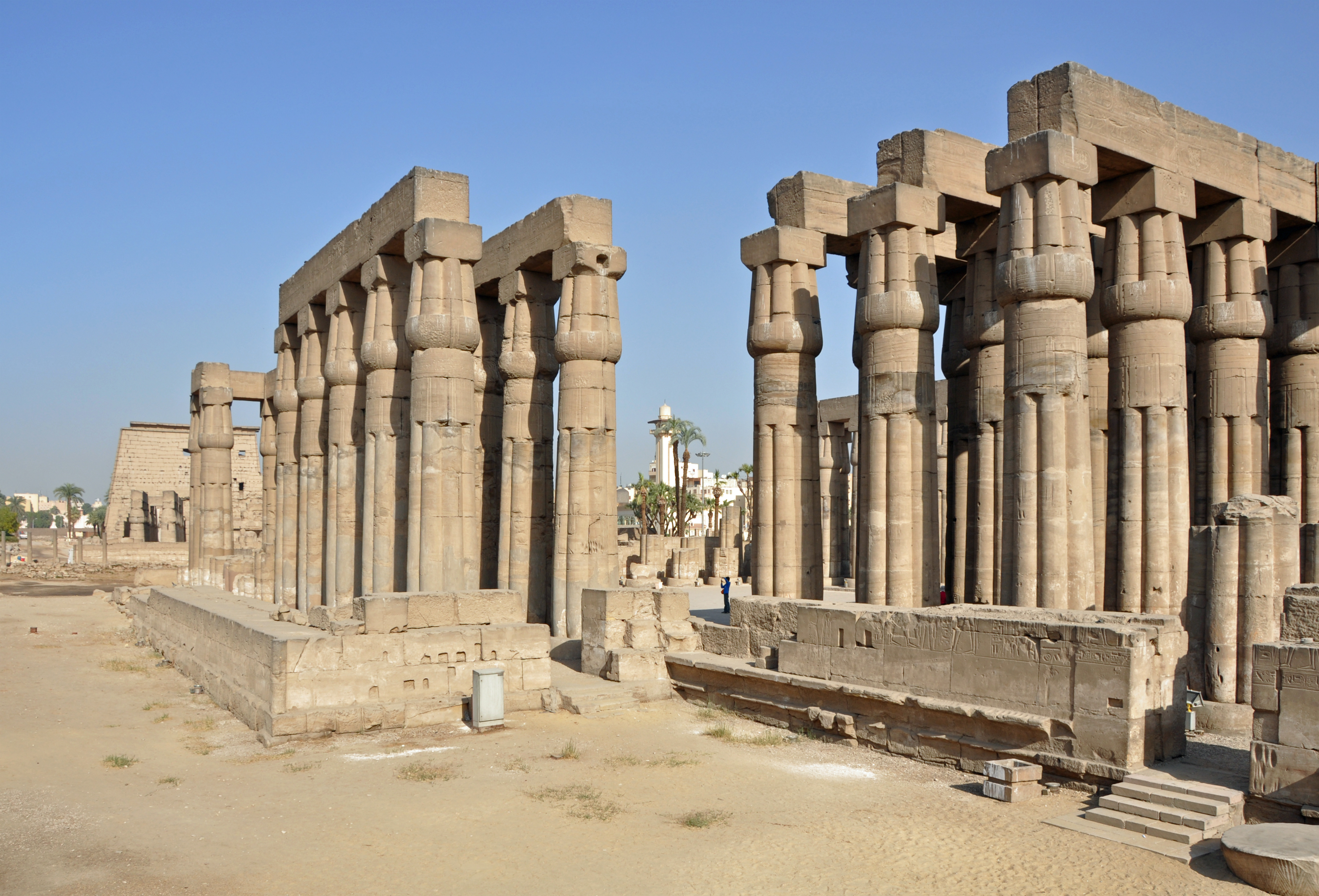 Luxor Temple (Egypt)